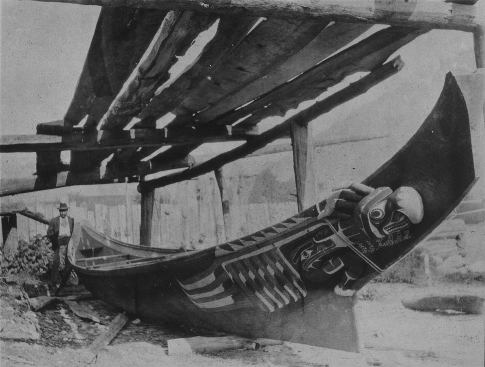 Haïda Indian type canoe.